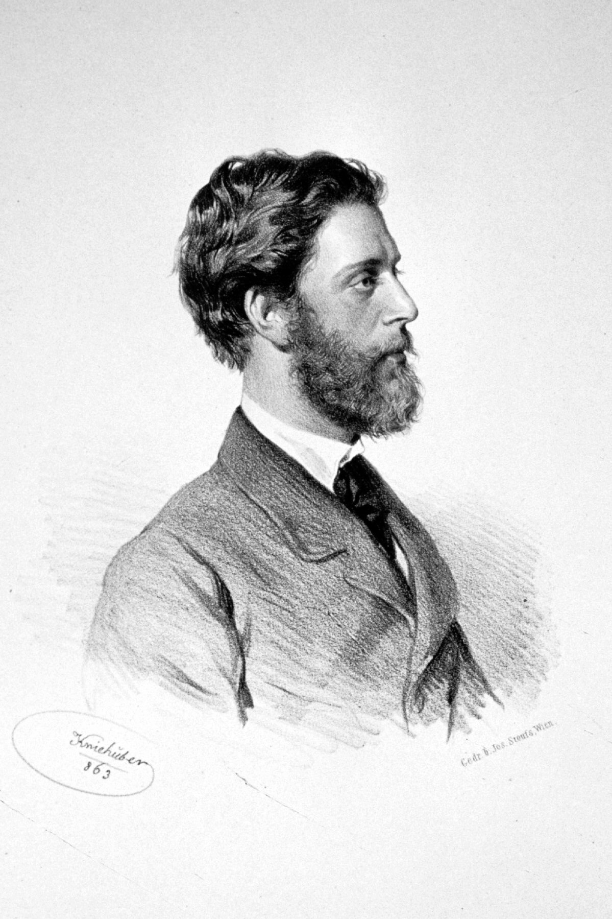 Ludwig Passini (1832-1908), Austrian painter and engraver